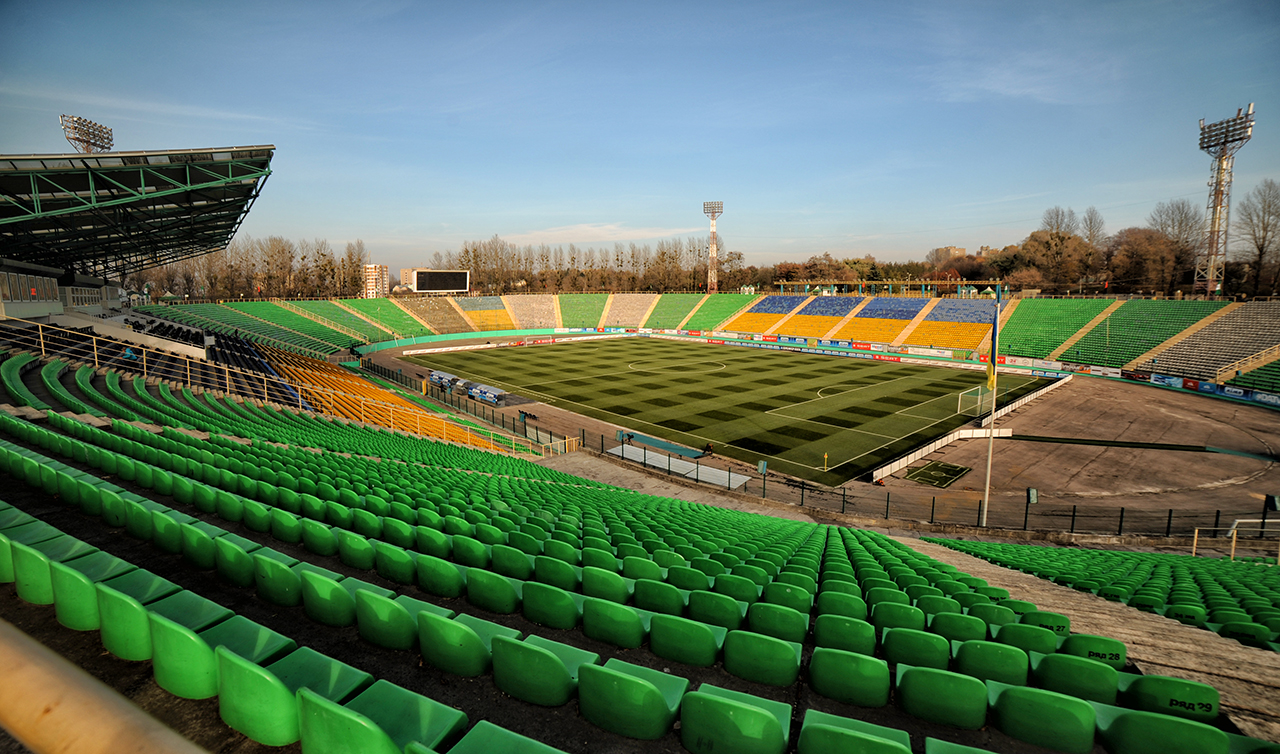 Ukraina Stadium in Lviv, Ukraine